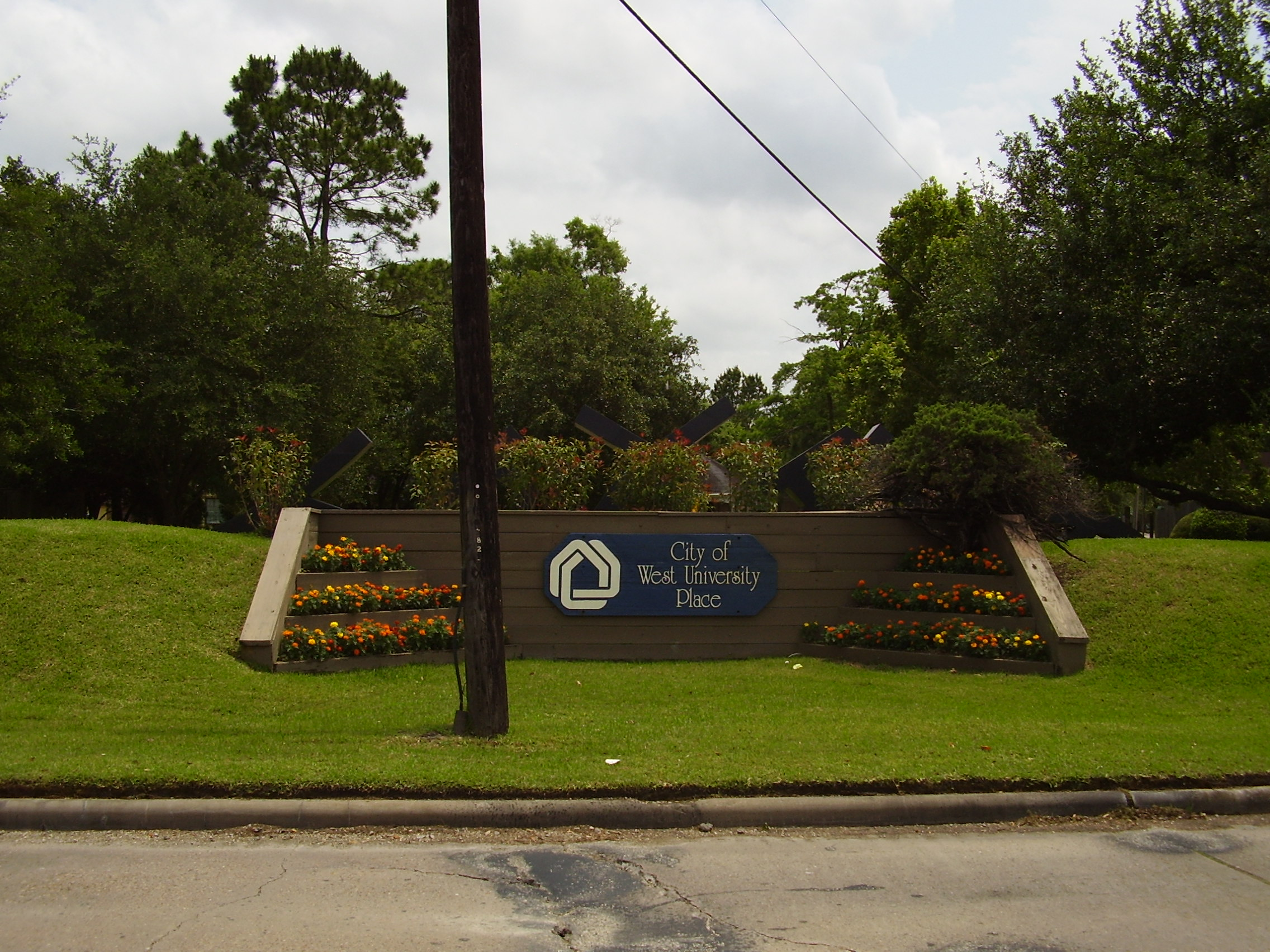 Sculpture at West University Place, Texas